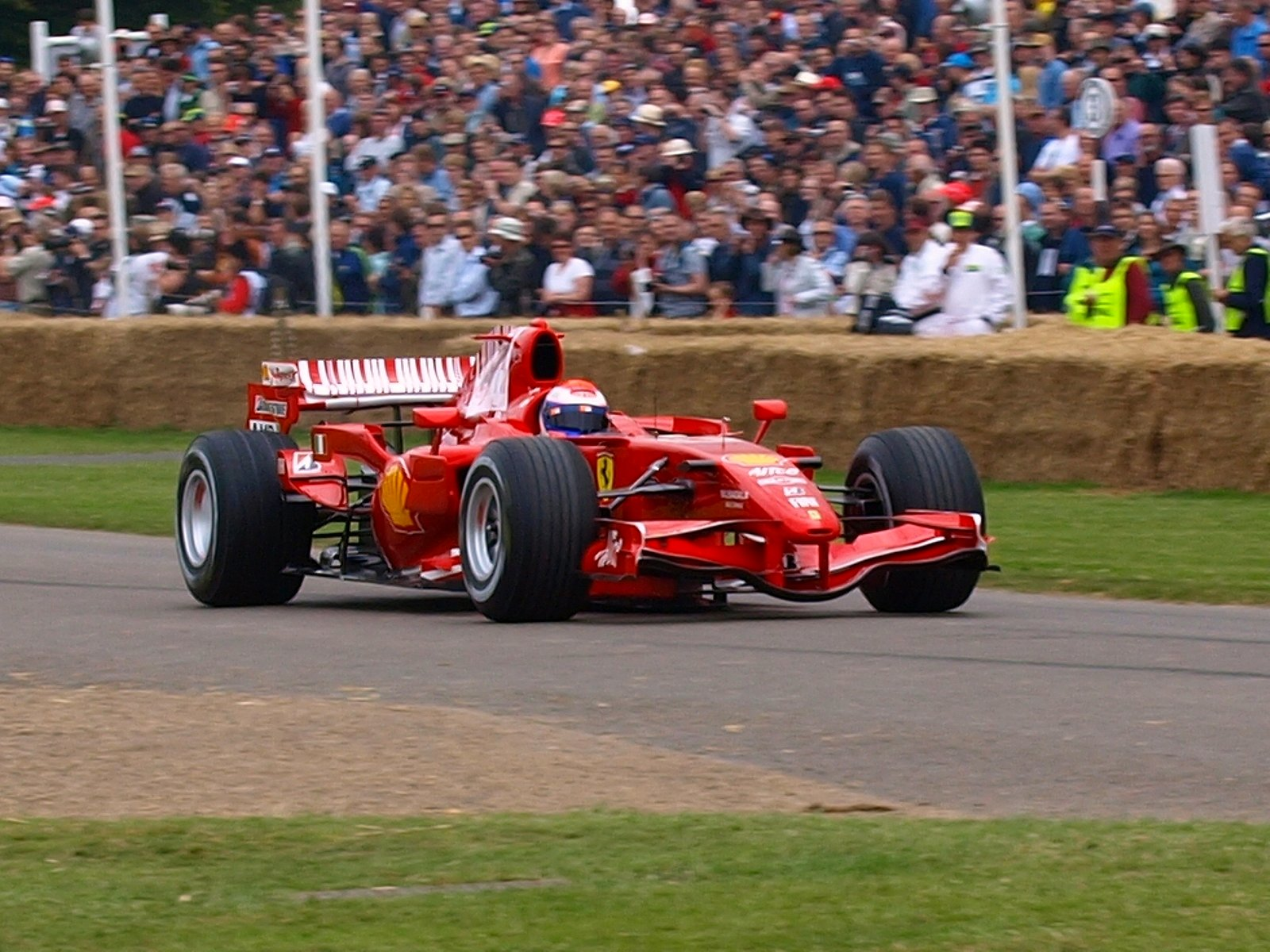 Marc Gené at Goodwood Festival of Speed 2008